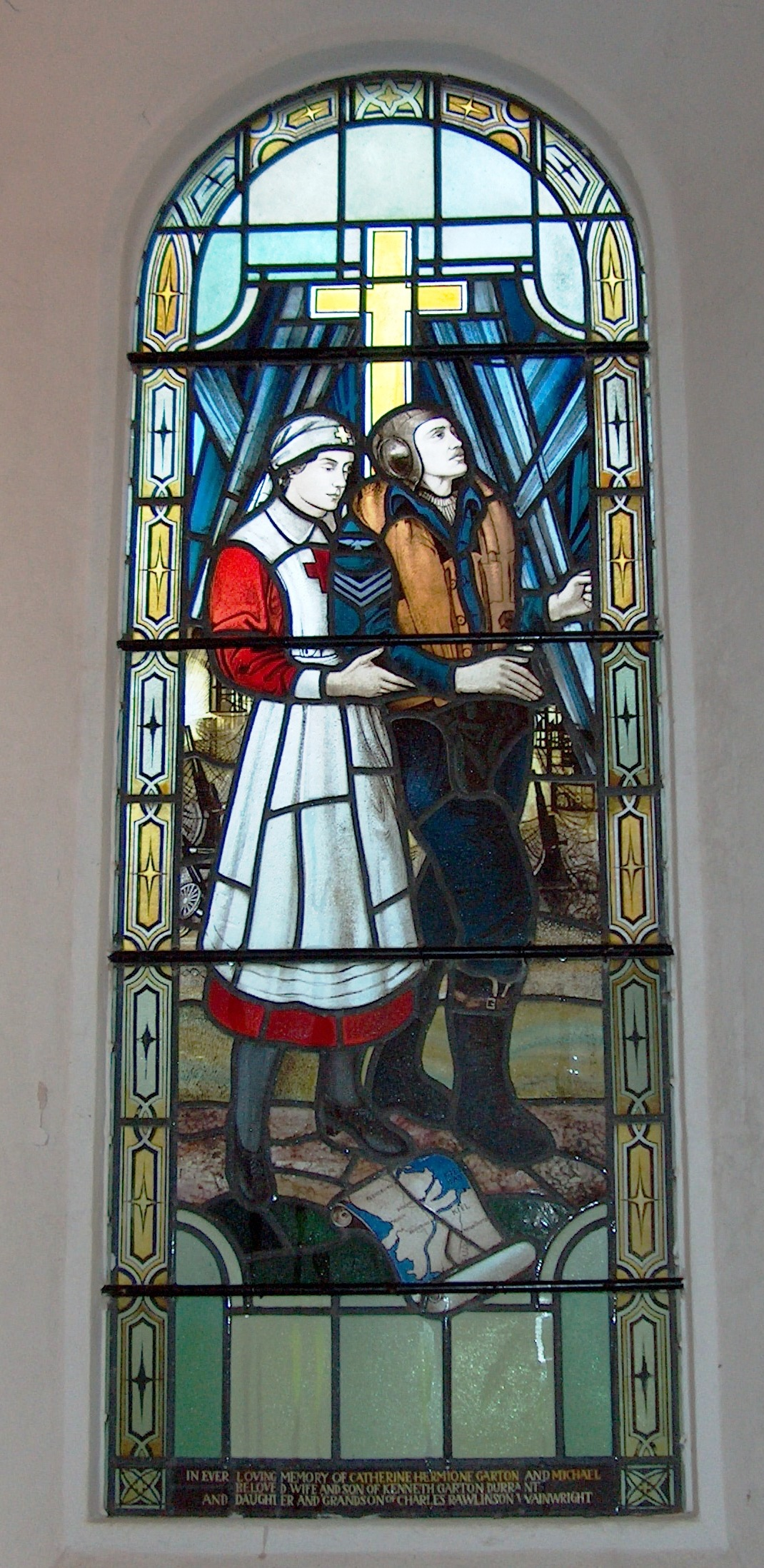 North window in St Mary's Church, Christon, Bristol. This 1950 window is by Arnold Robinson and depicts an airman and a nurse with search lights lighting up the night sky in the background. There is a map of the Kiel Canal area at their feet. Known as the “Bomber Command Window” it commemorates Sergeant Kenneth Michael Garton Durrant who was a navigator with 582 Squadron based at Little Staughton (between Bedford and St Neots) and was lost on a raid against Kiel on the night 15/16 September 1944 aged 21. He is buried in Kiel War Cemetry (plot 4, Row F, grave 10). At the base of the window is the inscription “In ever loving memory of Catherine Hermione Garton and Michael beloved wife and son of Kenneth Garton Durrant and daughter and grandson of Charles Rawlinson Wainwright”.